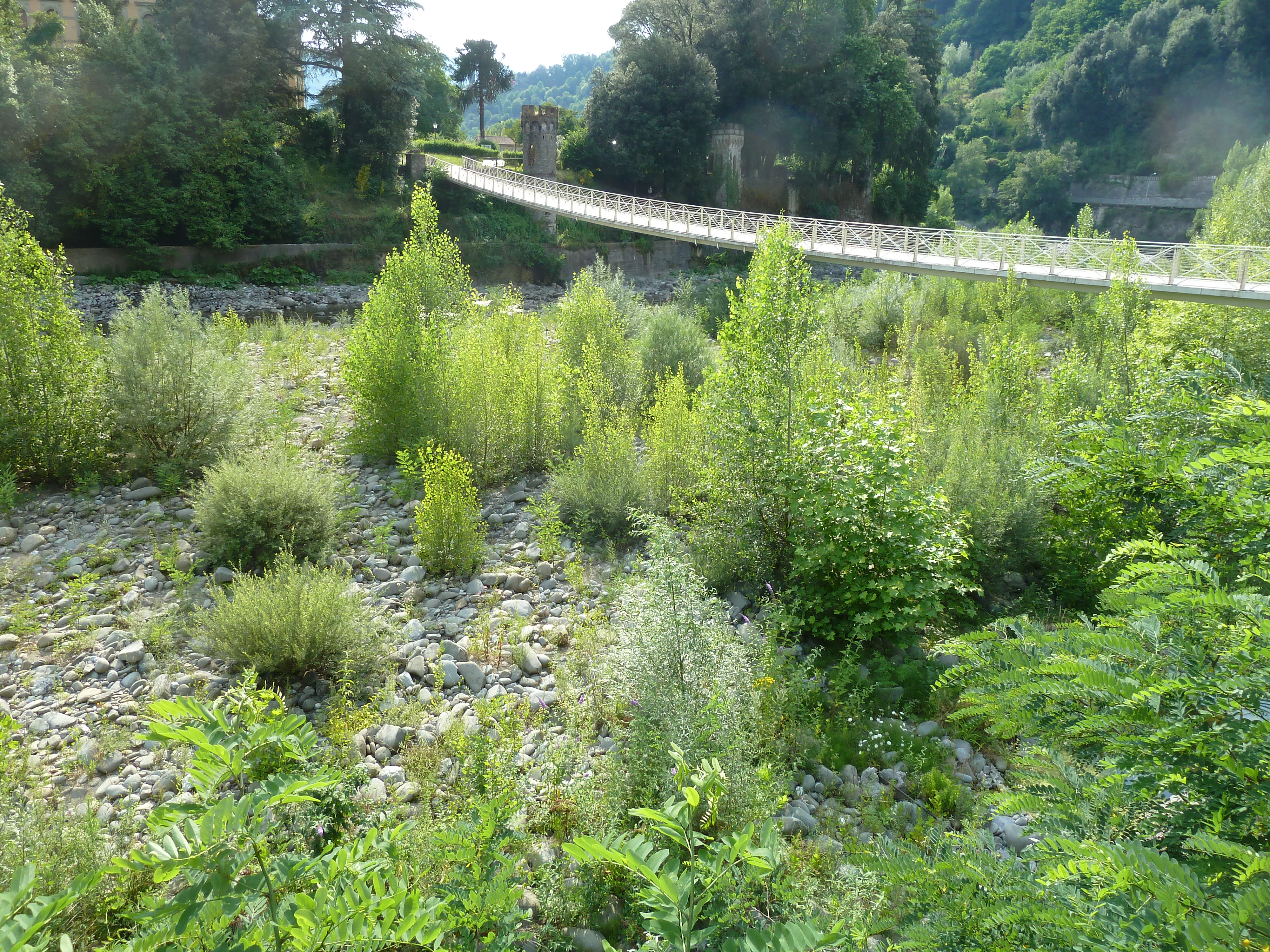 Bagni di Lucca, Italy June 2015 Nature